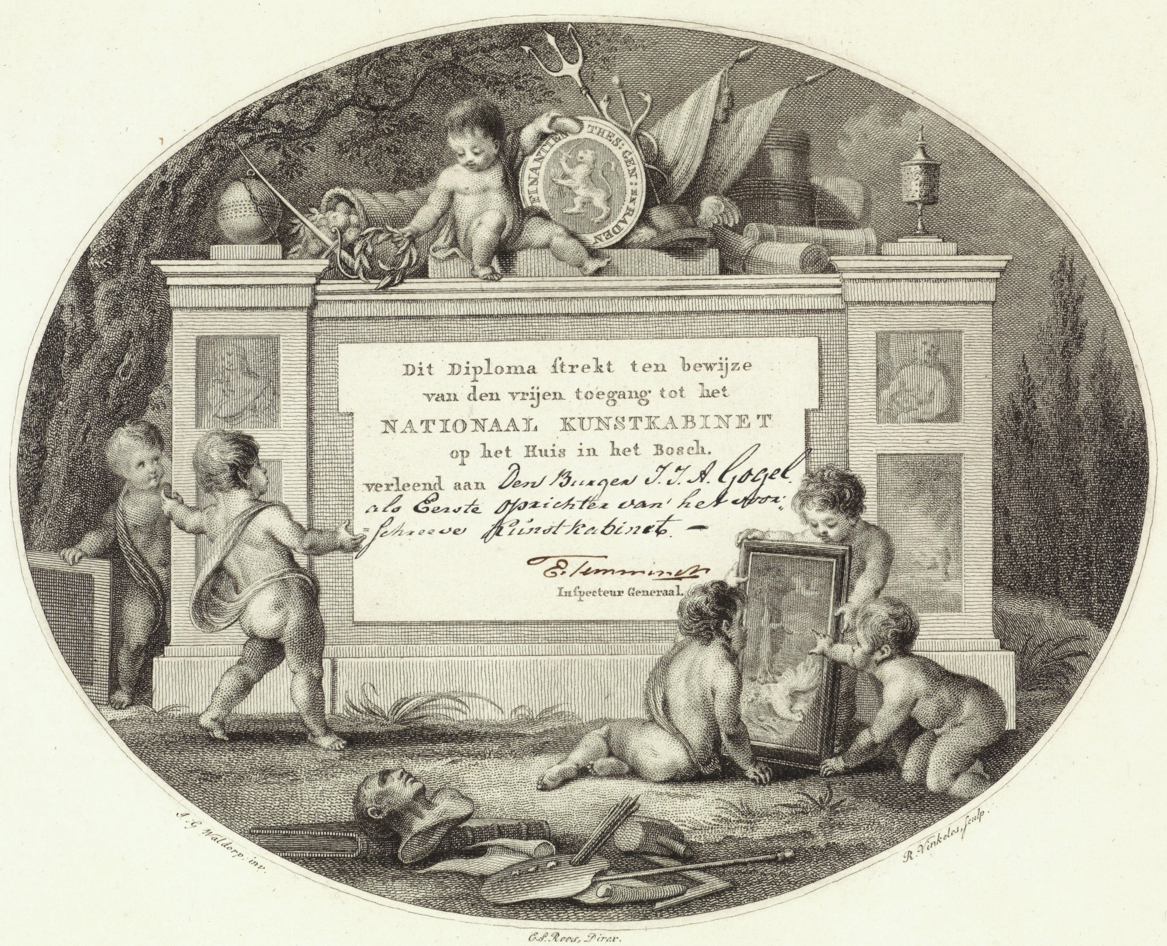 Entrance ticket to the National Art Cabinet the Huis ten Bosch in The Hague. In the foreground painter's attributes and three puttos in a still life, possibly by Jan Weenix. The admission ticket was designed by Reinier Vinkeles after a design by Jan Gerard Waldorp. It is in the name of I.J.A. Gogel (Isaäc Jan Alexander Gogel)